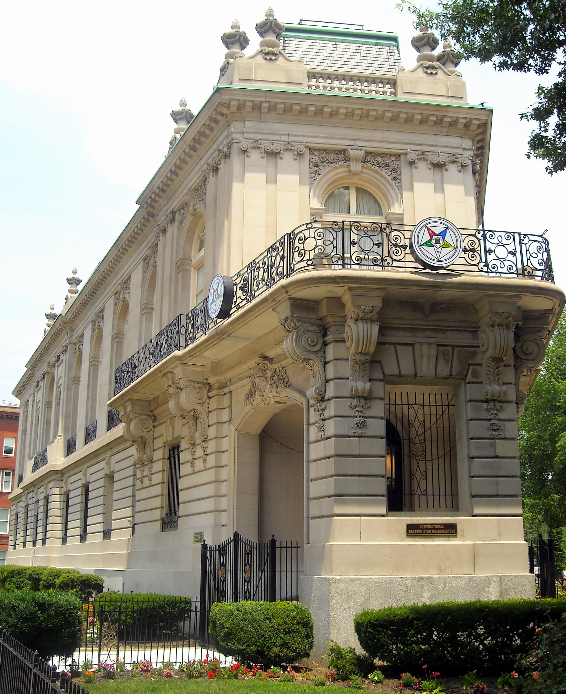 The International Temple, headquarters to the Order of the Eastern Star, at 1618 New Hampshire Avenue, NW in the Dupont Circle neighborhood of Washington, D.C. The building is also known as the Perry Belmont House and is listed on the National Register of Historic Places.